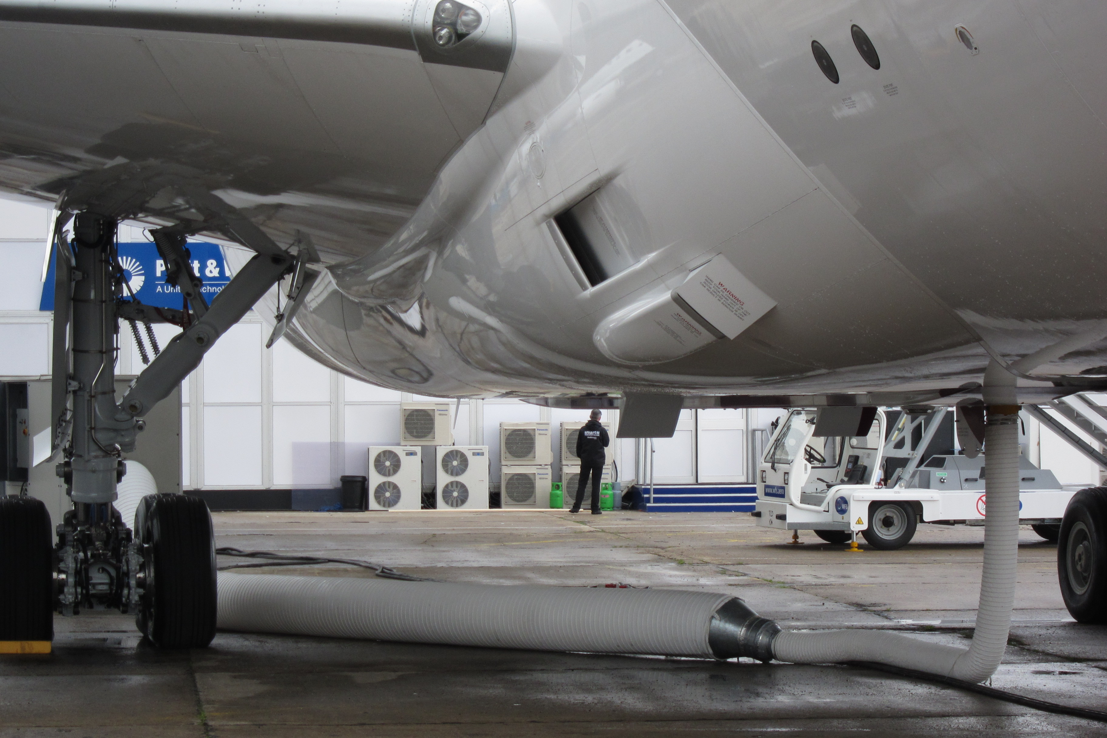 The air inlets (one open, the other shut) of one of the two air conditioning packs of a Boeing 787